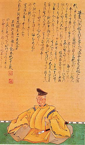 self-portrait by Chikamatsu Monzaemon（近松門左衛門）